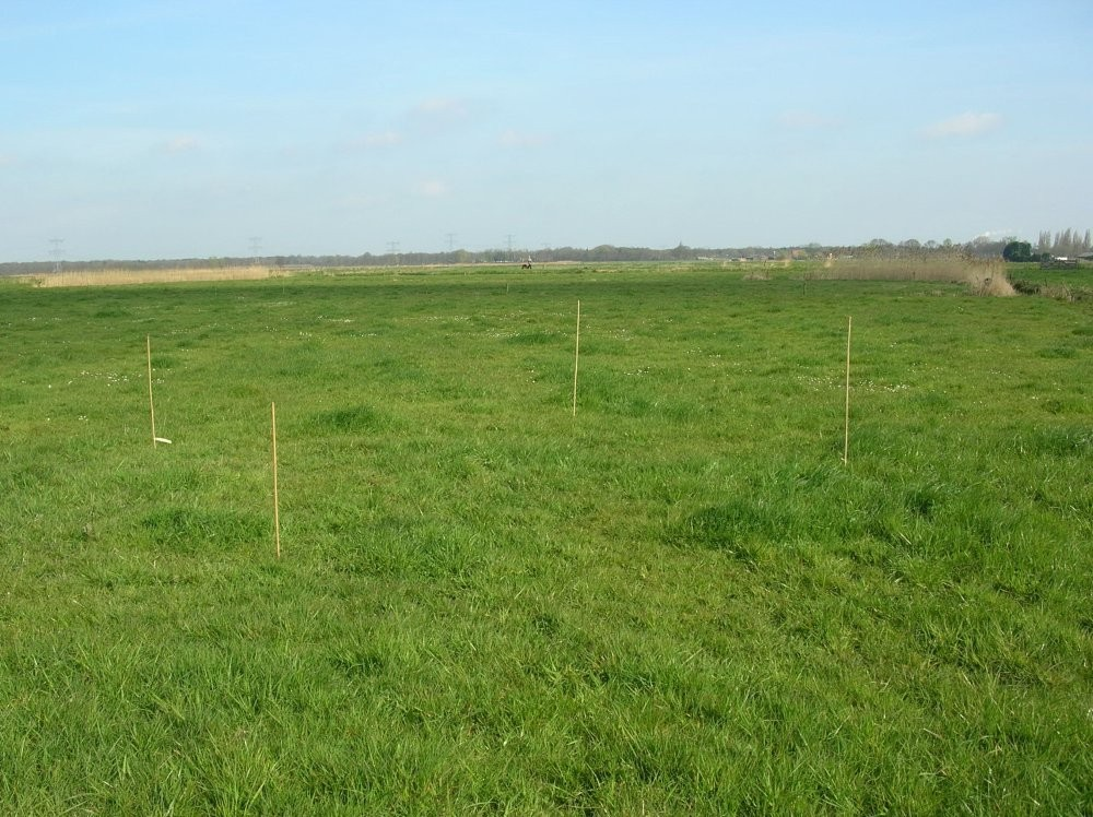 A nest is marked in a field to protect it